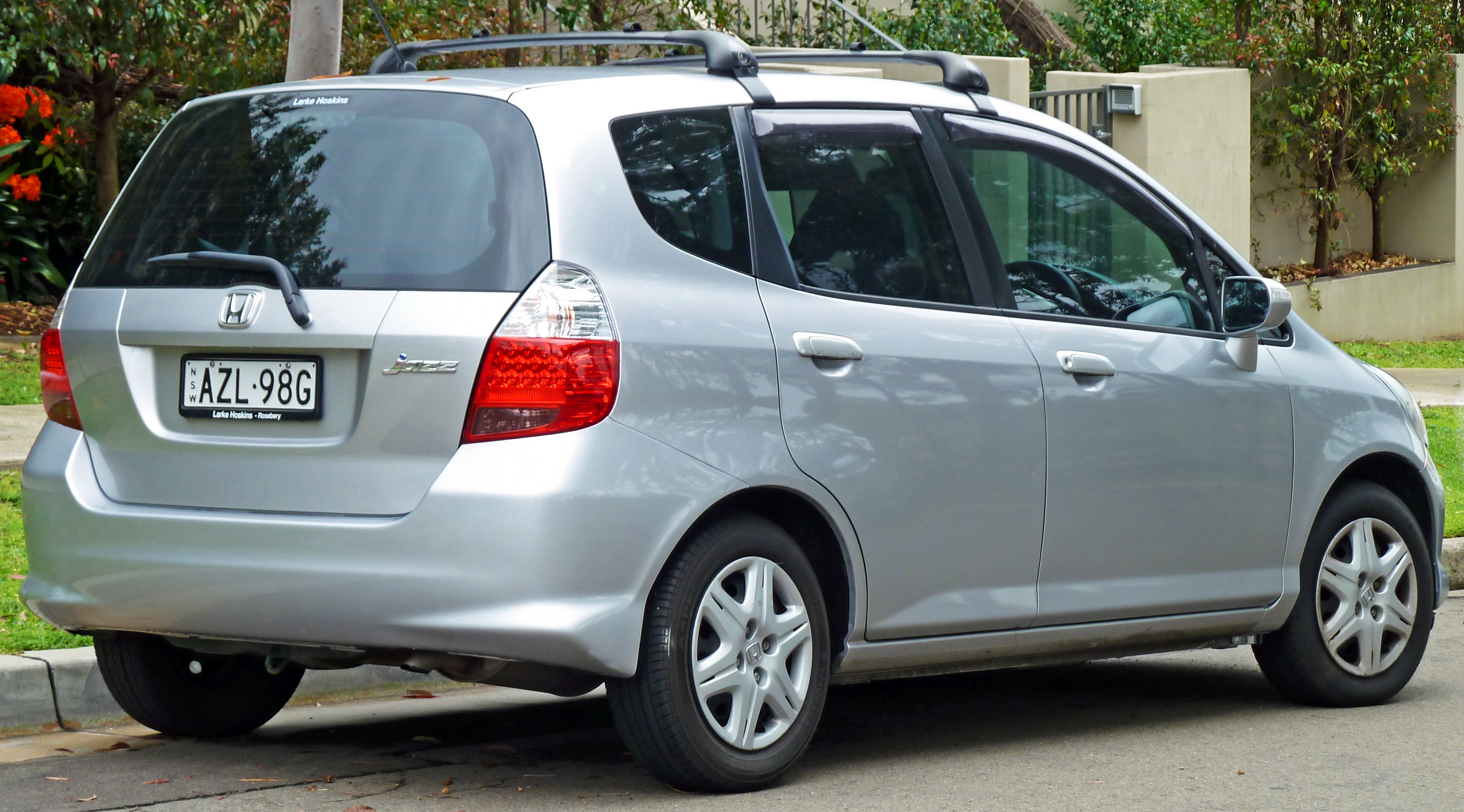 2006 Honda Jazz (GD) hatchback. Photographed in Gymea, New South Wales, Australia.